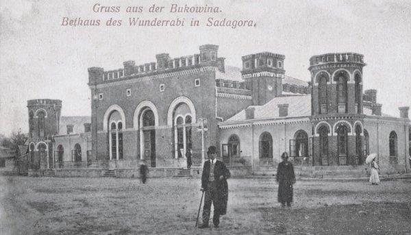 The hasidic synagogue in Sadhora, Ukraine.